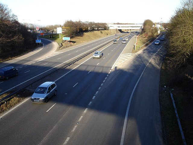 Medway Services, M2. Looking east. Formerly known as Farthing Corner. This stretch of the M2, to its eastern end beyond Faversham is still only 4 lanes wide. The services span the motorway and you may sit above the fast lane and eat your burger.